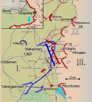 Battle by Nesterov (Stallupönen) - 17th august 1914 Schlacht bei Stallupönen am 17. August 1914